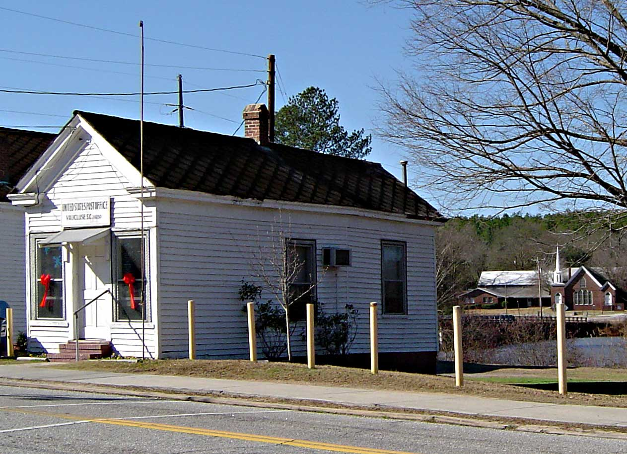 US Post Office, Vaucluse South Carolina, with First Baptist Church in the background on the opposite side of Vaucluse Pond. Photograph 2007 by P J Hughes